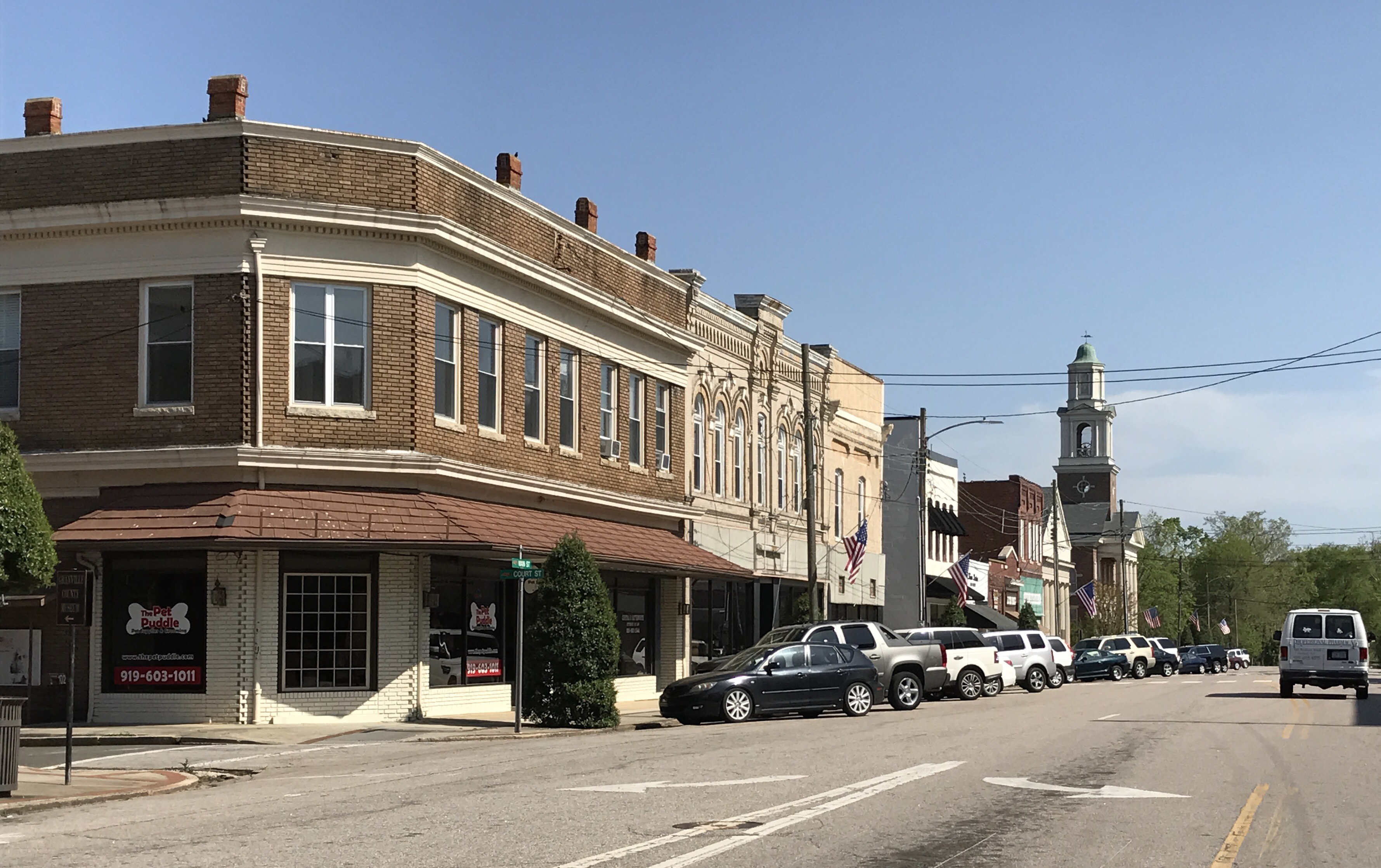 Street in downtown Oxford, North Carolina